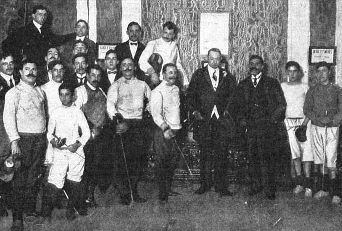 A group of fancers of Gimnasia y Esgrima de Buenos Aires with the president of the club.